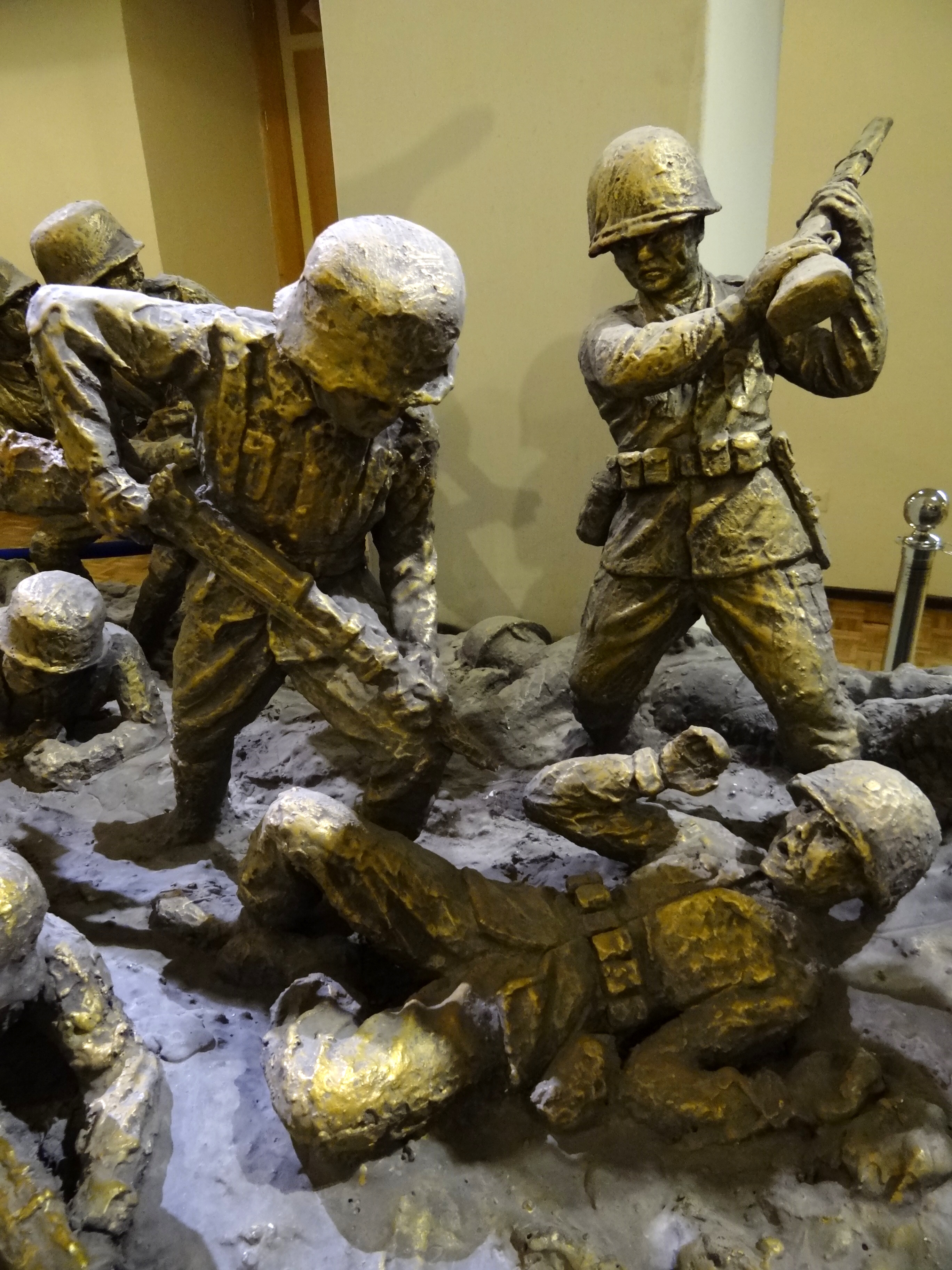 Detail of War - Sculpture by Ahad Hosseini - Azerbaijan Museum - Tabriz - Iranian Azerbaijan - Iran